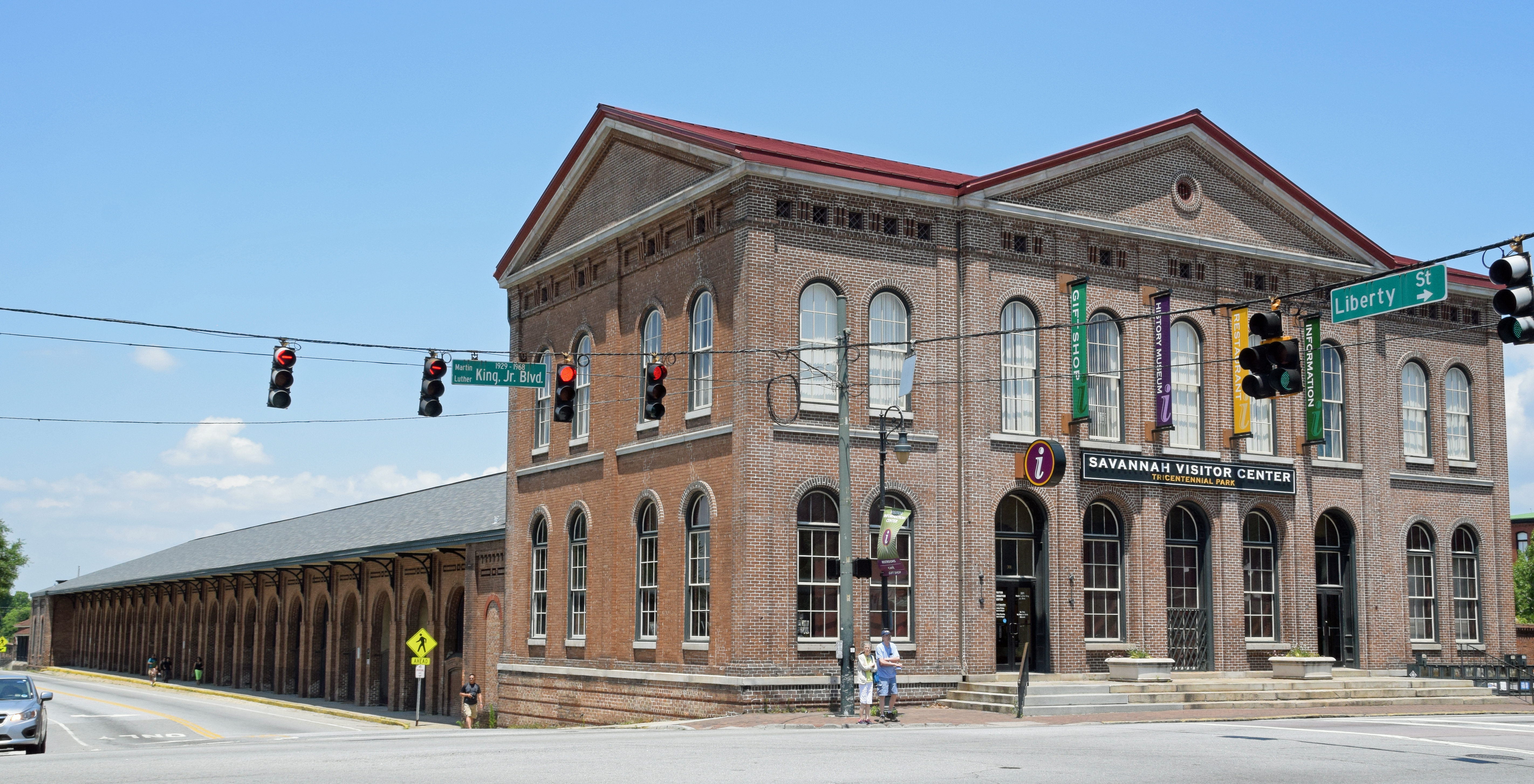 Savannah, GA USA - Historic Central of Georgia terminal - now a visitor's center. Is on the National Register of Historic Places.